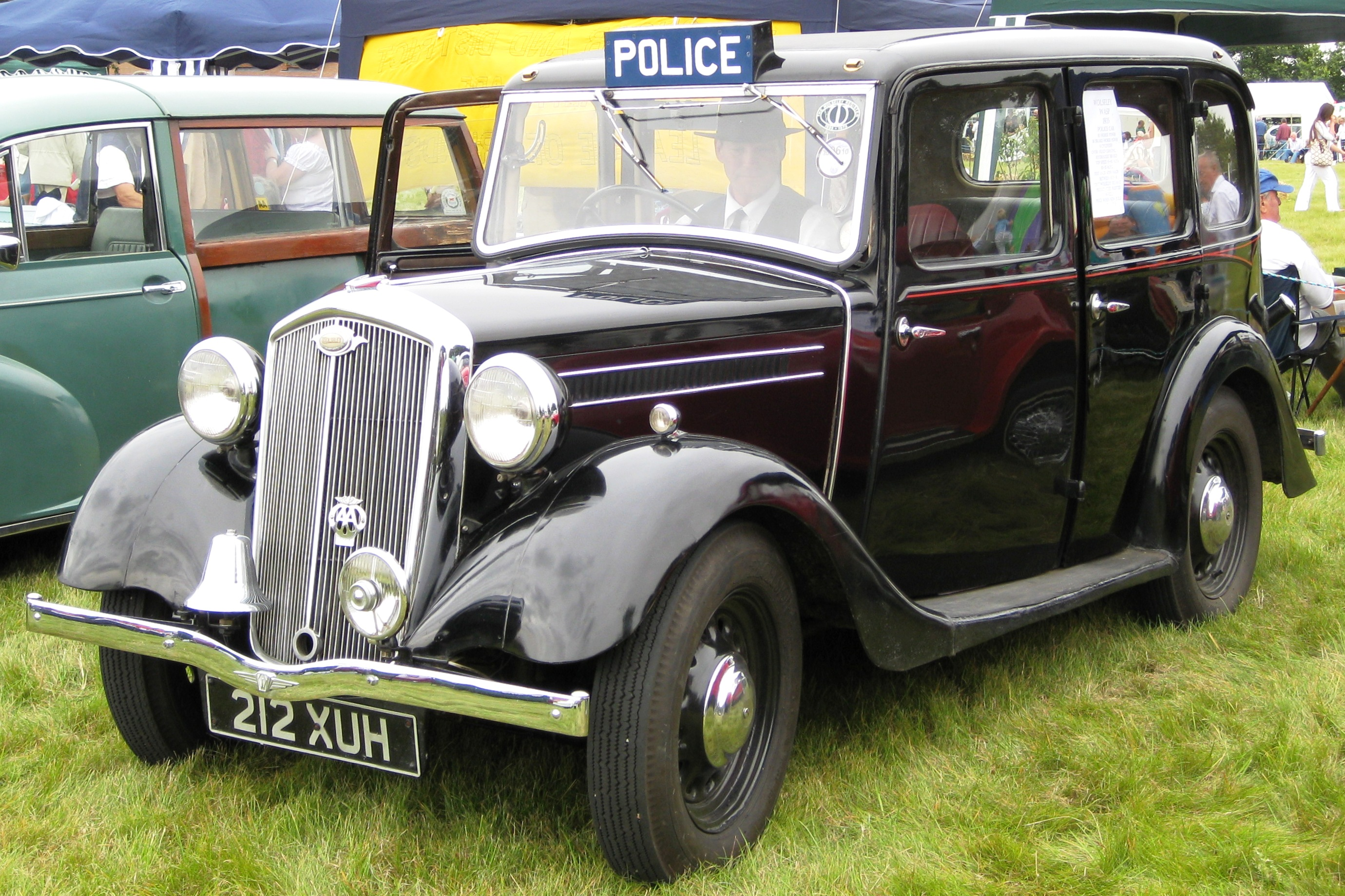 Wolseley Wasp dressed for Police Service